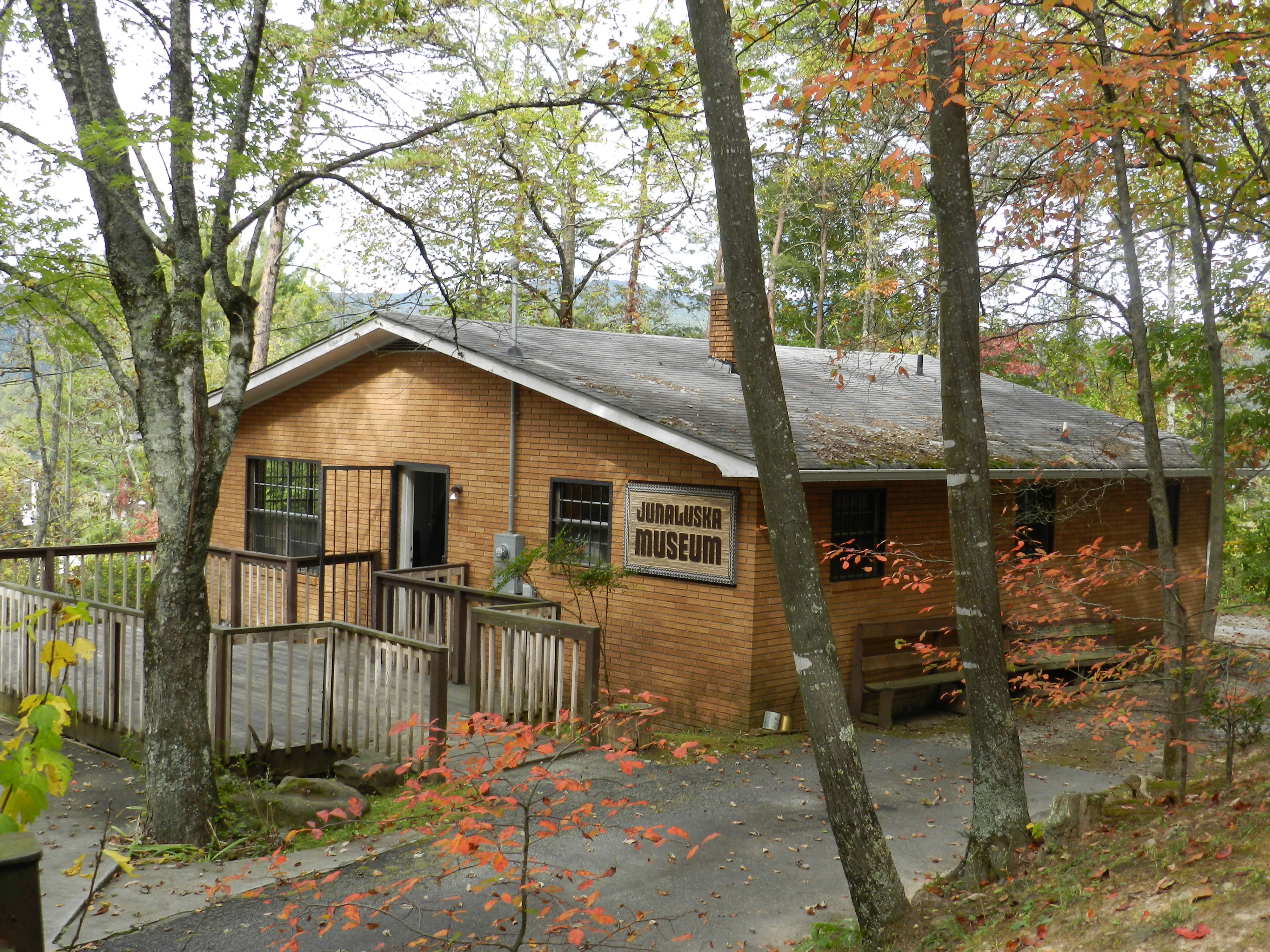 Junaluska Museum in Robbinsville, Graham County, North Carolina.